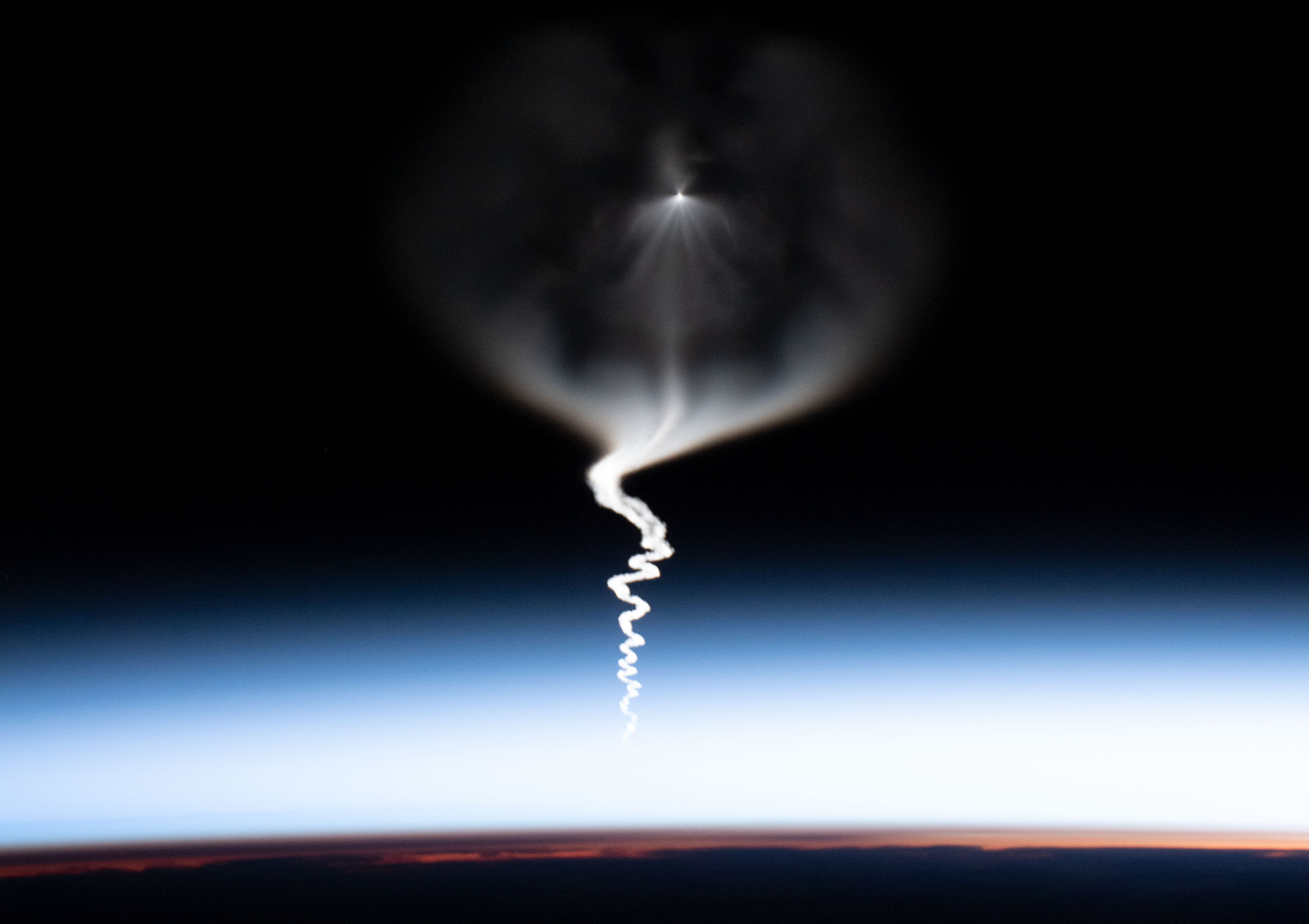 Expedition 60 Flight Engineer Christina Koch photographed the Soyuz MS-15 crew ship ascending into space after its launch from Kazakhstan. The Soyuz would dock a few hours later to the International Space Station with NASA astronaut Jessica Meir, Roscosmos cosmonaut Oleg Skripochka and spaceflight participant Hazzaa Ali Almansoori of the United Arab Emirates.